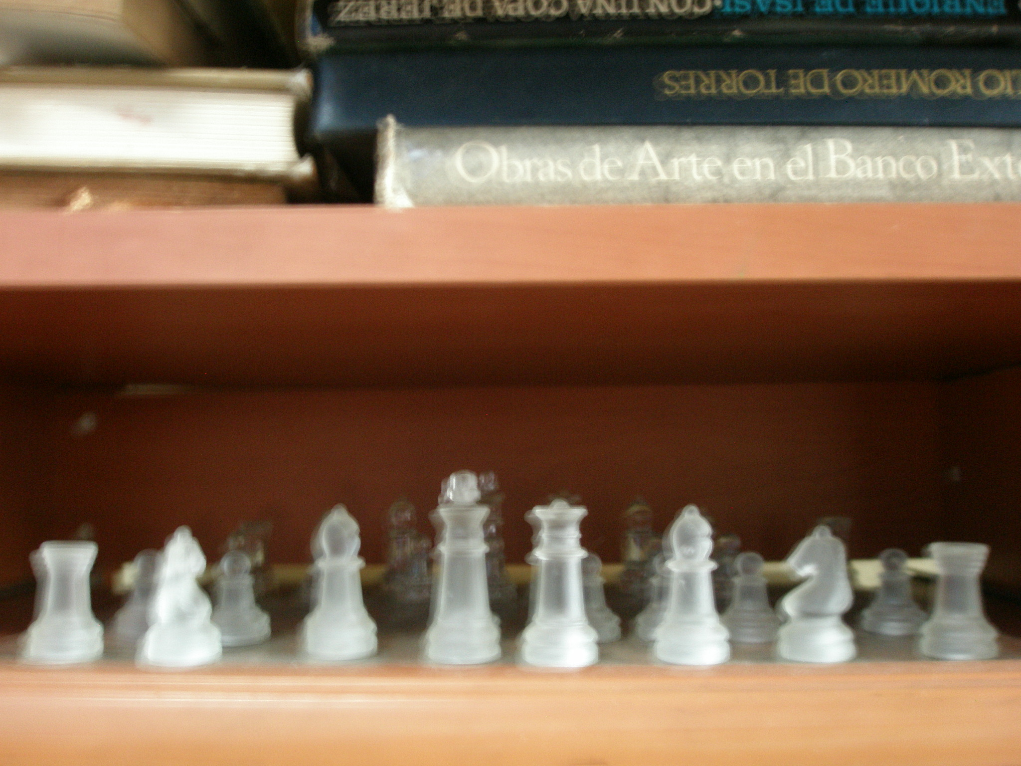 Chess transparent color